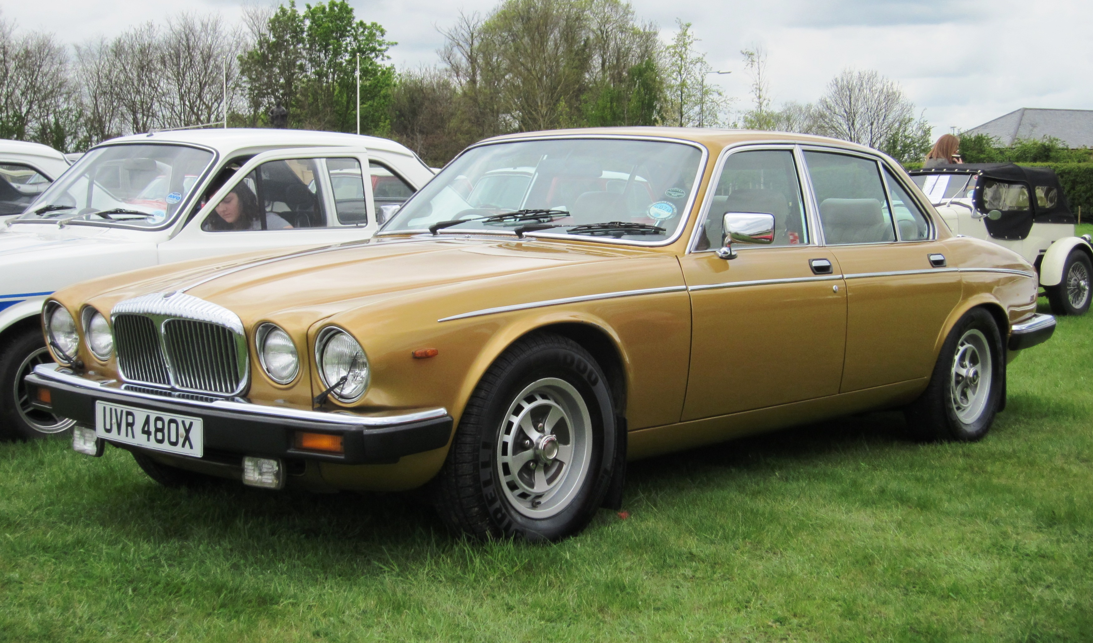 Daimler Double-Six H.E. at Duxford